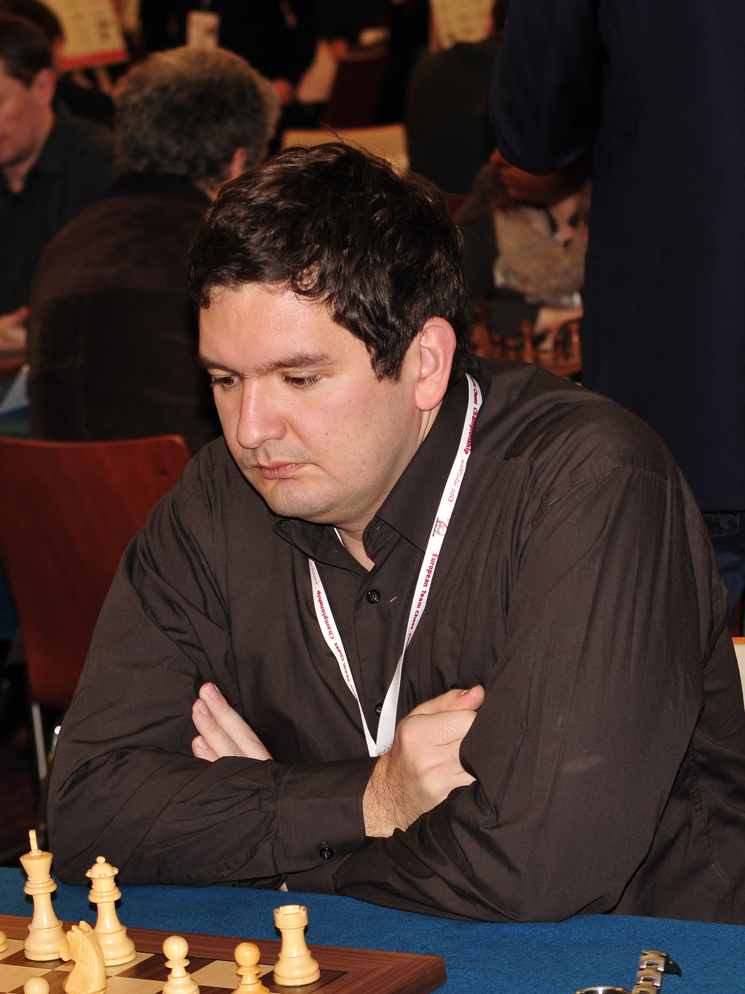 GM Alexander Moiseenko, European Chess Team Championship Warsaw 2013